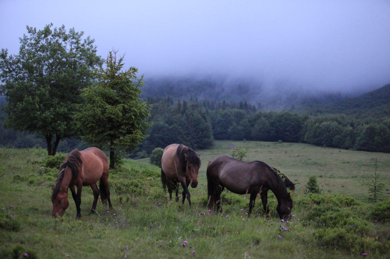 A shot of Hucul horses in the summer